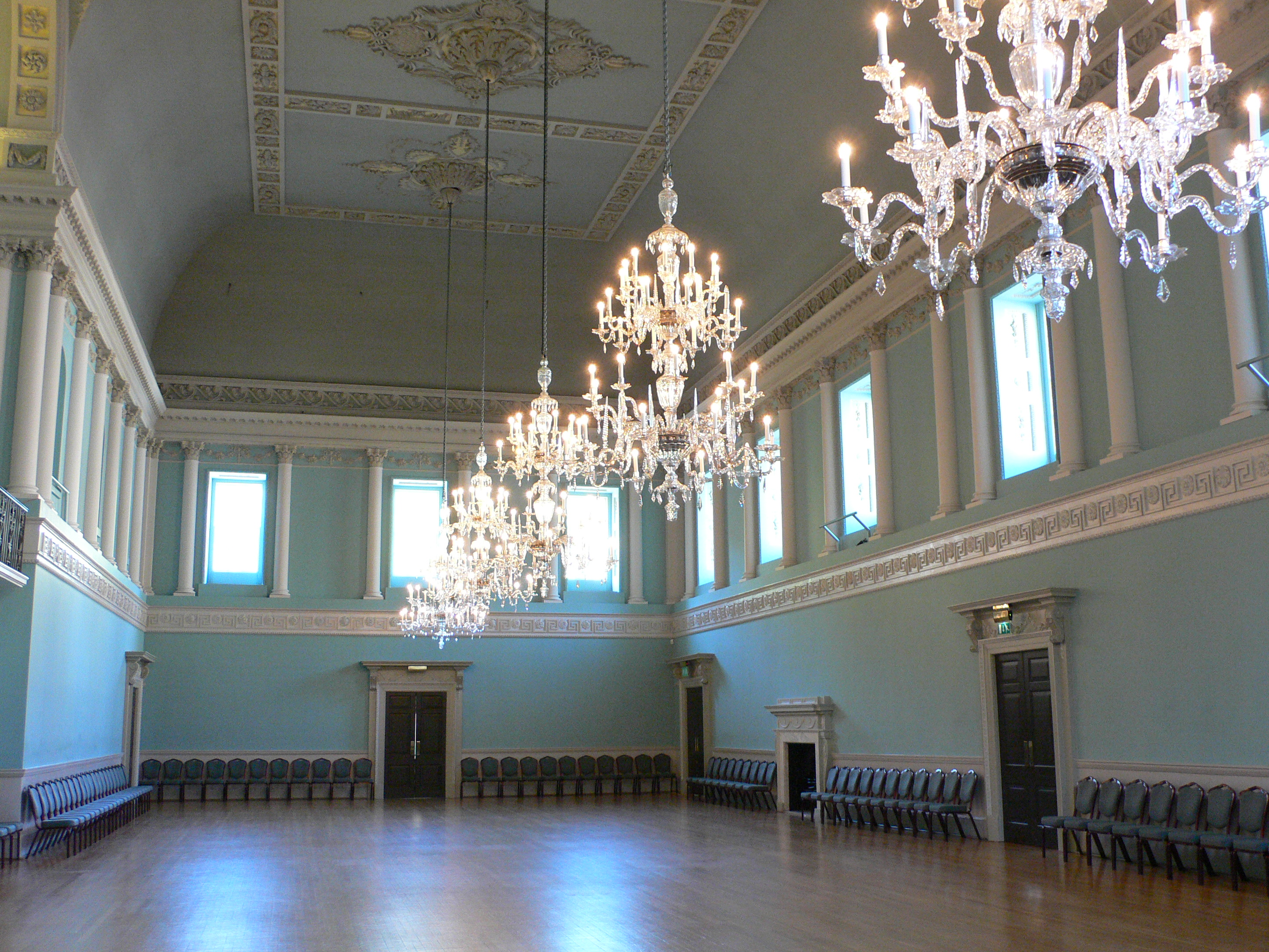 Assembly rooms in Bath, Somerset.